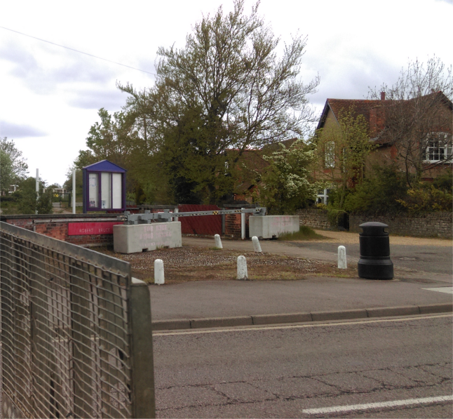 Old Robert Bruce School Entrance, Kempston, Bedfordshire - also likely to be the terminus of the Kempston gravel railway.